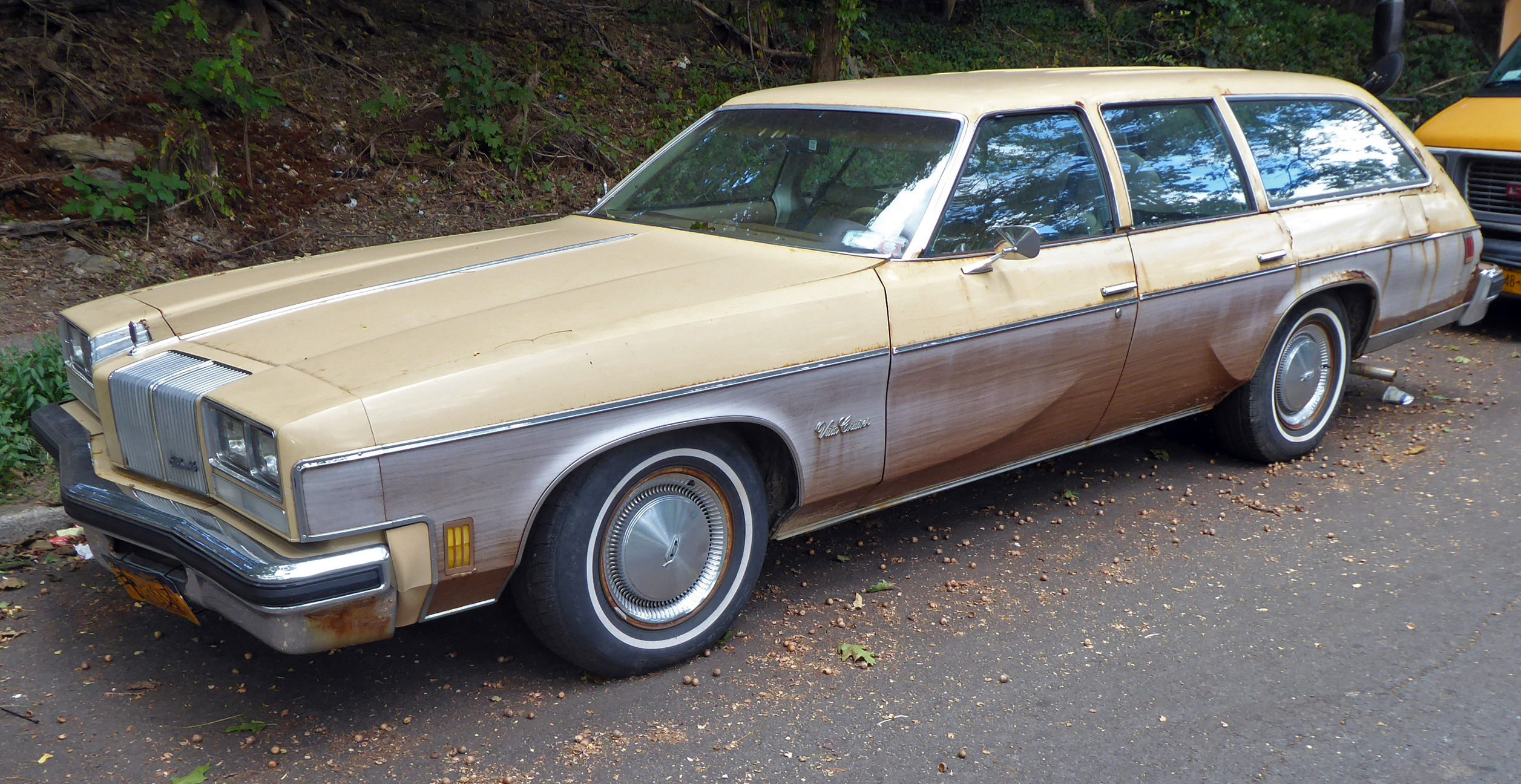 1976 Oldsmobile Vista Cruiser (two seat rows) with the 215hp 4-barrel 455 V8, built in Doraville, GA. The engine is according to the VIN, cannot find any support for this version of the 455 having been offered in the 1976 Vista Cruiser. Last year for this famous engine.